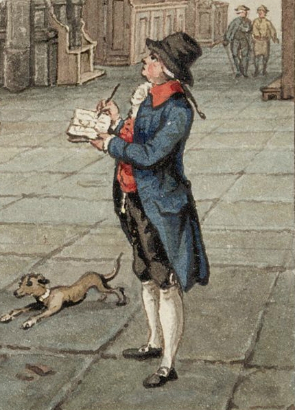 Self-portrait by Hermanus Petrus Schouten. Detail of image